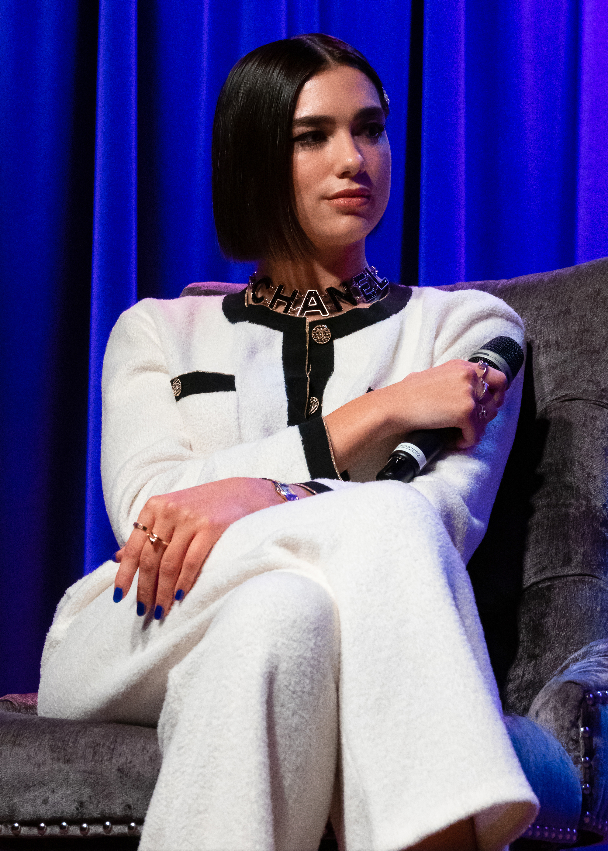 Dua Lipa interview and live performance at the Grammy Museum in Los Angeles, California, on Friday, September 28, 2018.